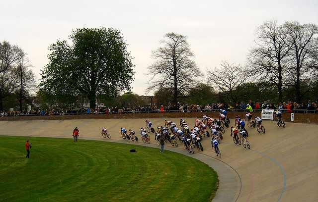 Points race at Herne Hill